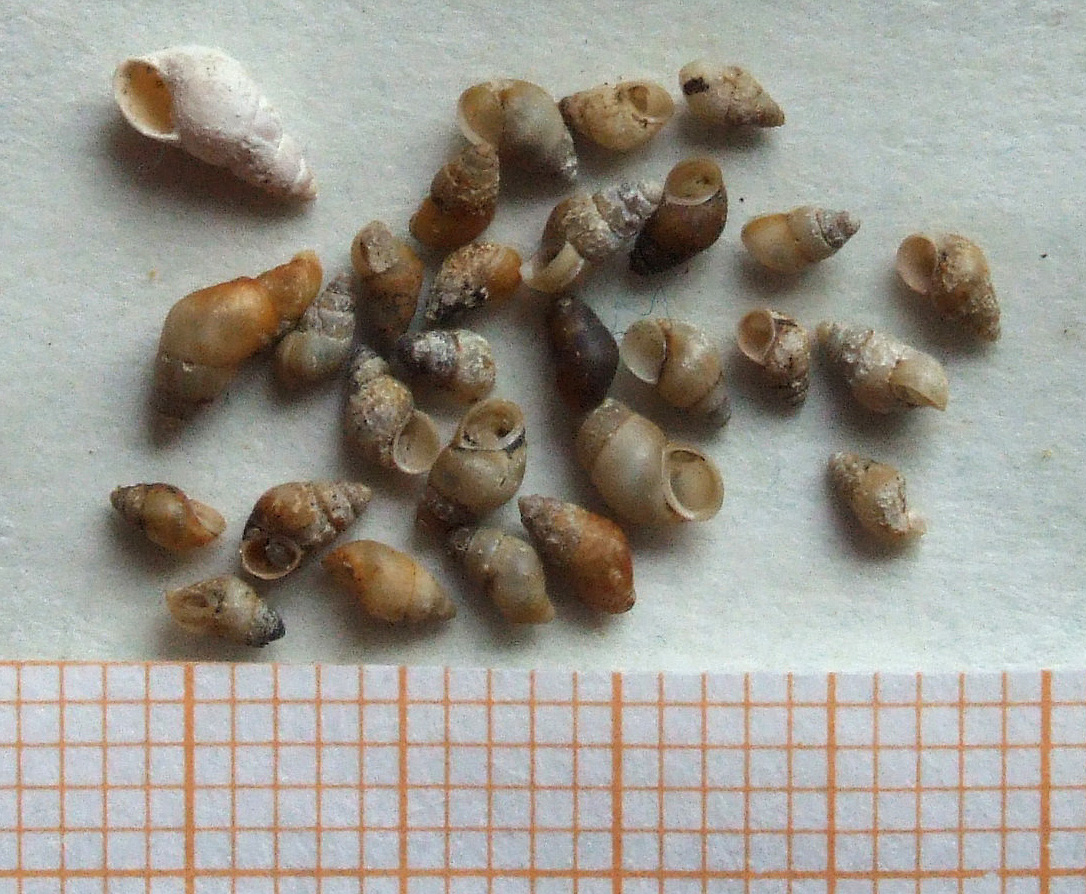 Shells of Hydrobia ulvae (Pennant, 1777) (synonym : Peringia ulvae) , found on Sylt, Germany